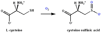 Schematic drawing of the cysteine dioxygenase reaction